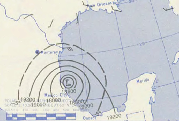 A 500 mb height chart of Hurricane Hilda 1955 striking the Gulf Coast of Mexico. This map, not to be confused with a surface map, shows the cyclone at the 500 mb level of the atmosphere, or about 19,000 meters up. The contours show 500 mb height in meters above the surface